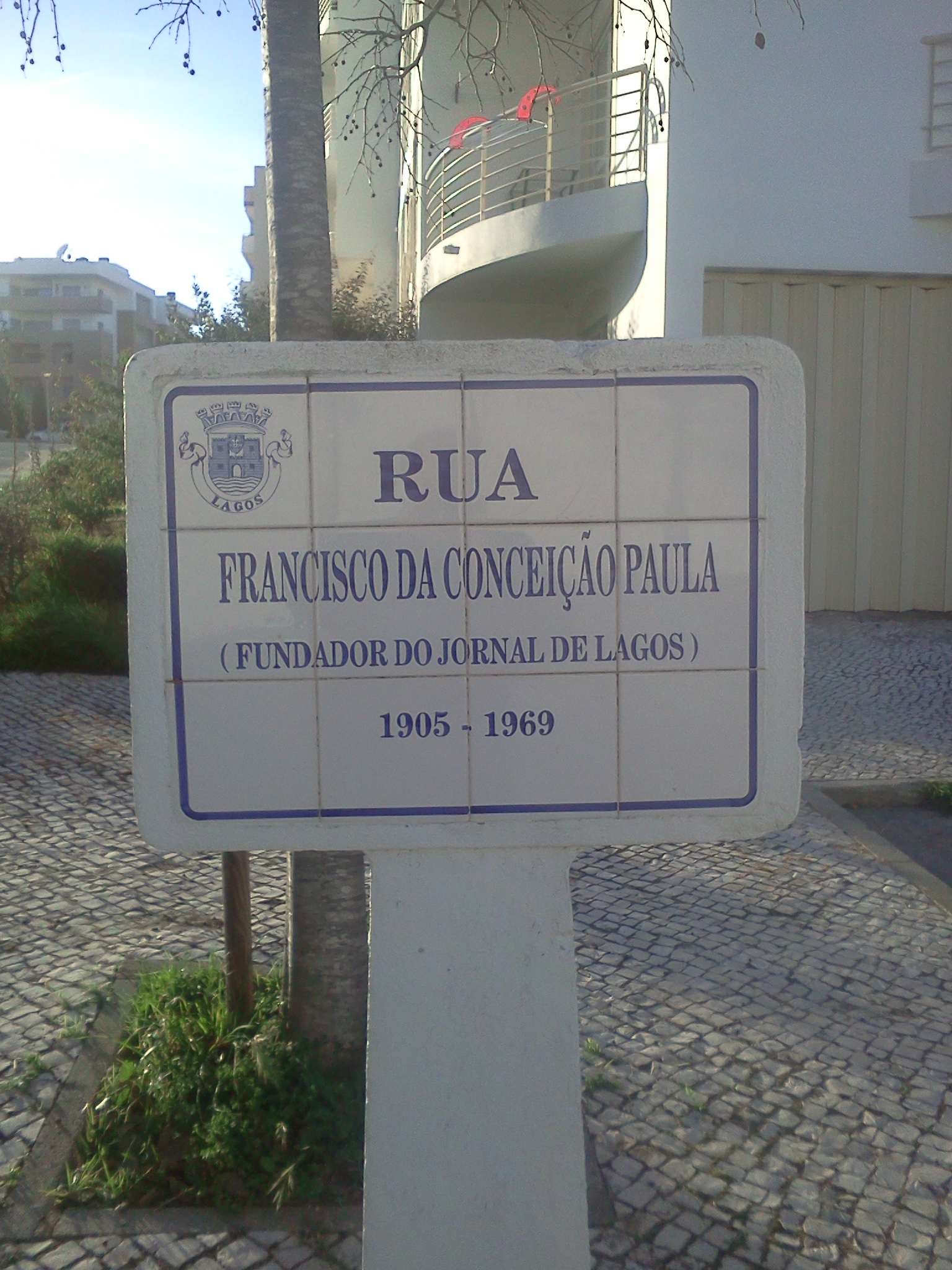 Street sign of Rua Francisco da Conceição Paula, in the city of Lagos, in southern Portugal.